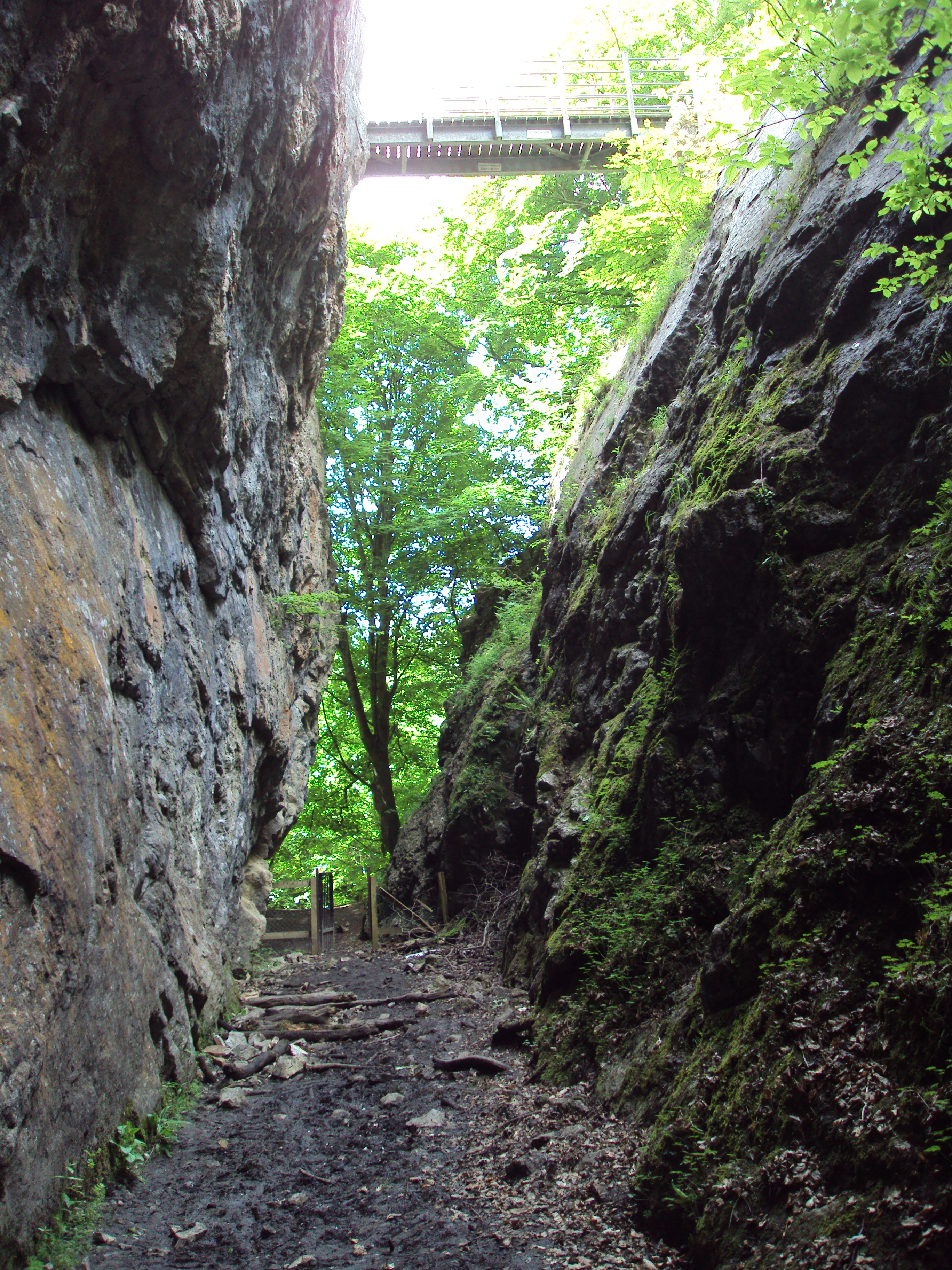 Devil's Gorge lies between Loggerheads, Denbighshire and Cilcain, Flintshire, North Wales. The Gorge is in Flintshire.